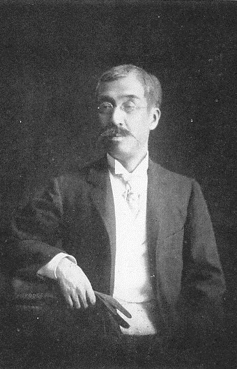 Ienori Kiyosu